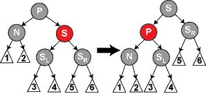 Produced by Derrick Coetzee in Illustrator and Photoshop for the red-black tree page. Explains deletion of a node when its sibling is red (case 2). Size reduced with pngcrush.